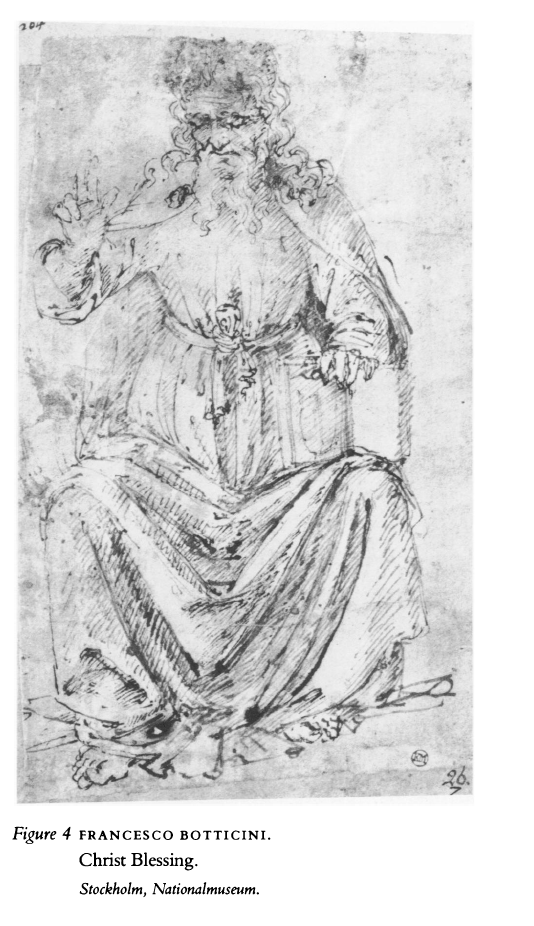 Drawing by Francesco Botticini